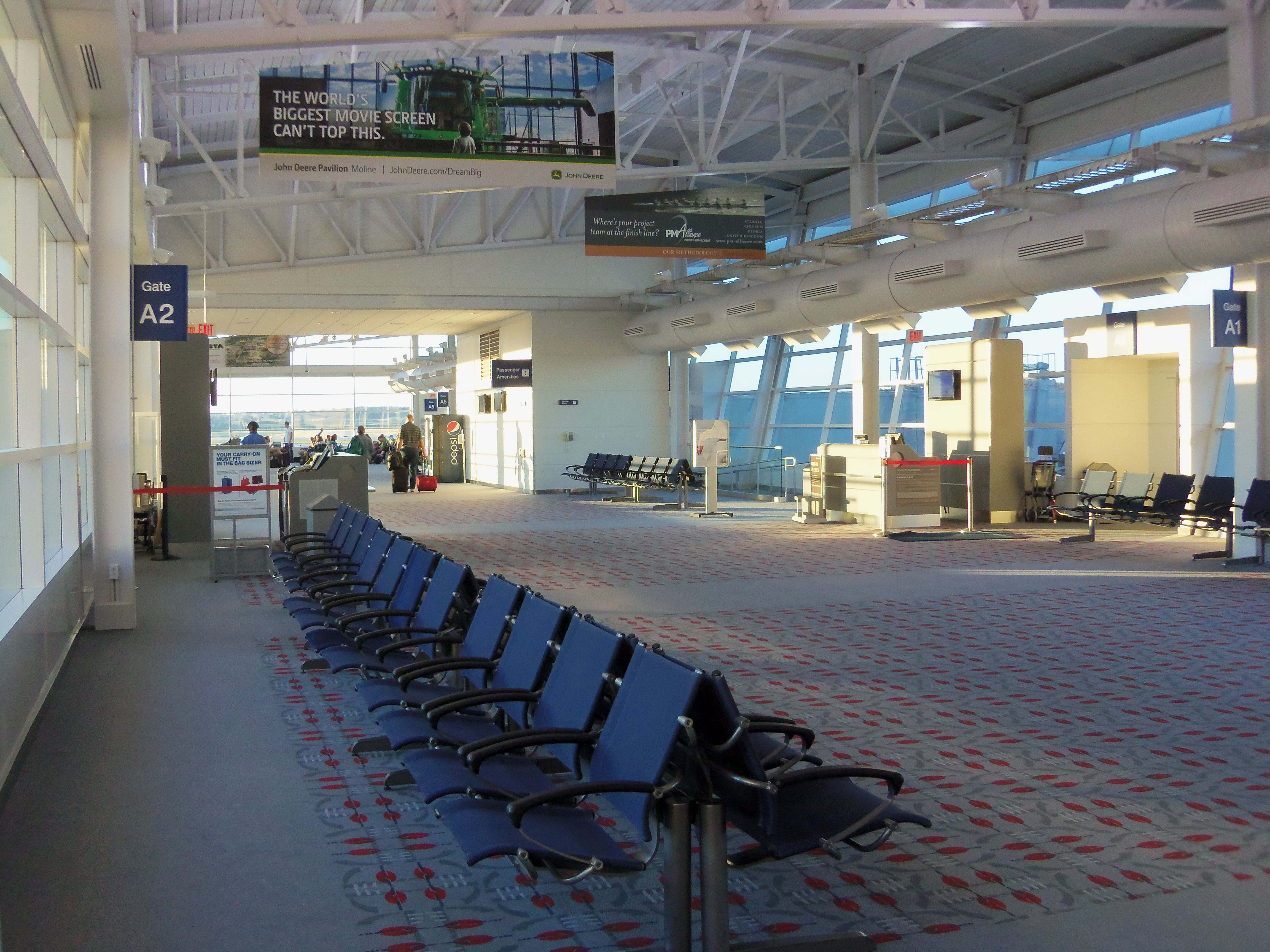 The A Concourse at Quad City International Airport in Moline, Illinois.